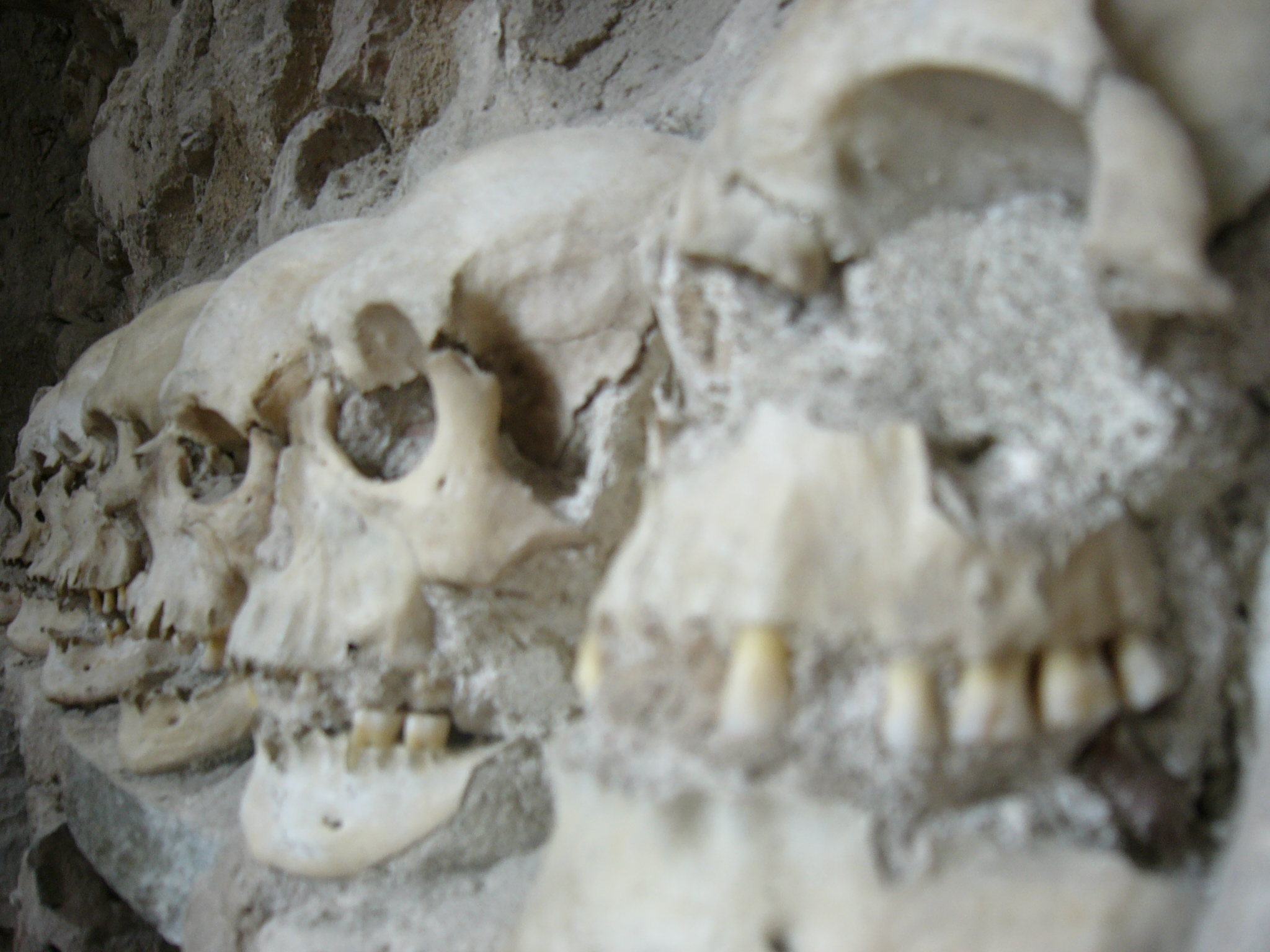 The skulls on the Skull Tower monument.